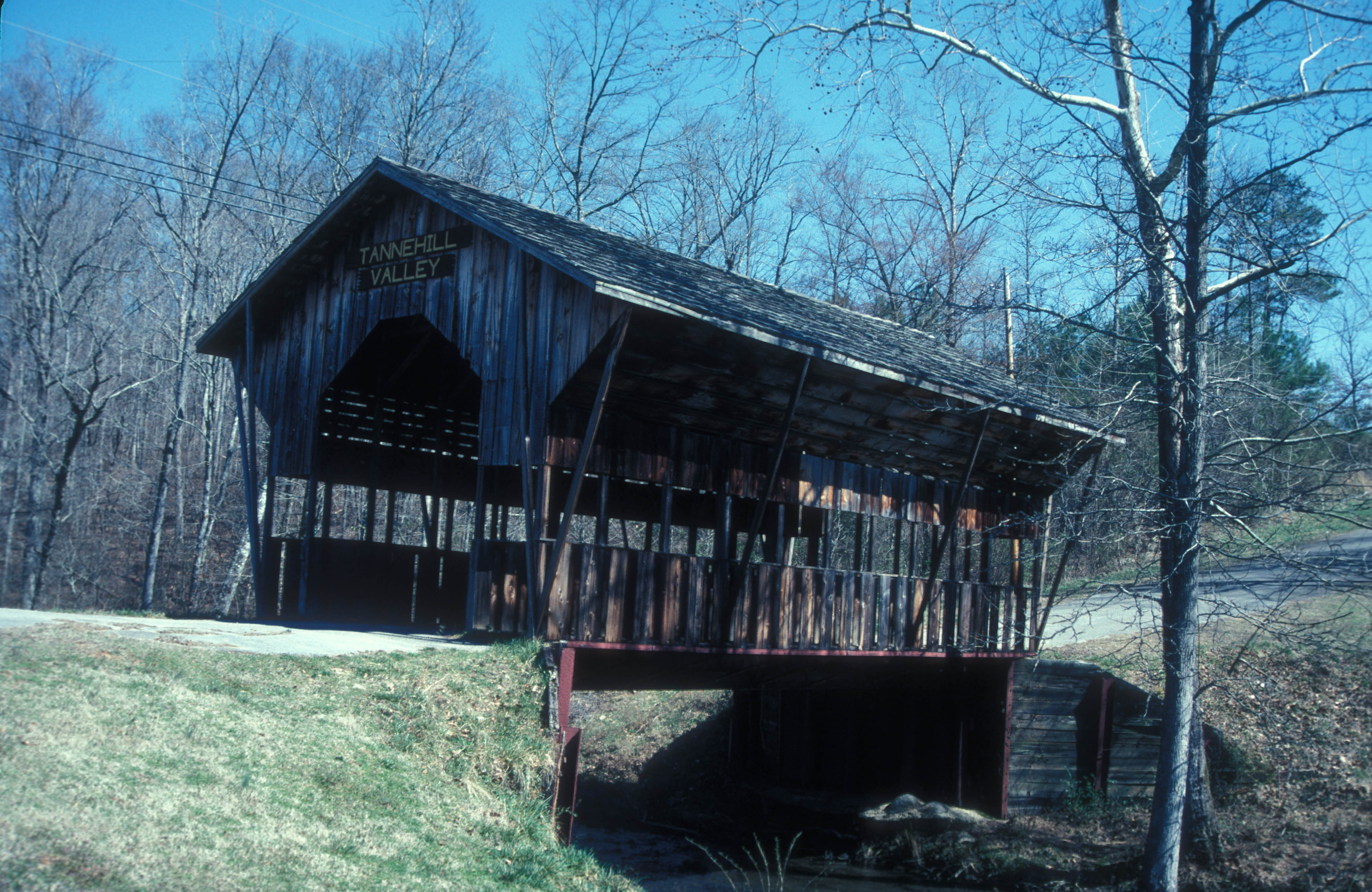 45’, 1972 STRINGER OVER TANNEHILL MILL CREEK NEAR MCCALLA IN JEFFERSON COUNTY, ALABAMA